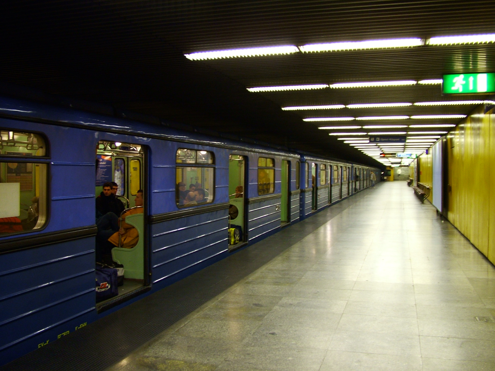 Pöttyös utca station on the Budapest metro line 3 See other pictures: metros.hu